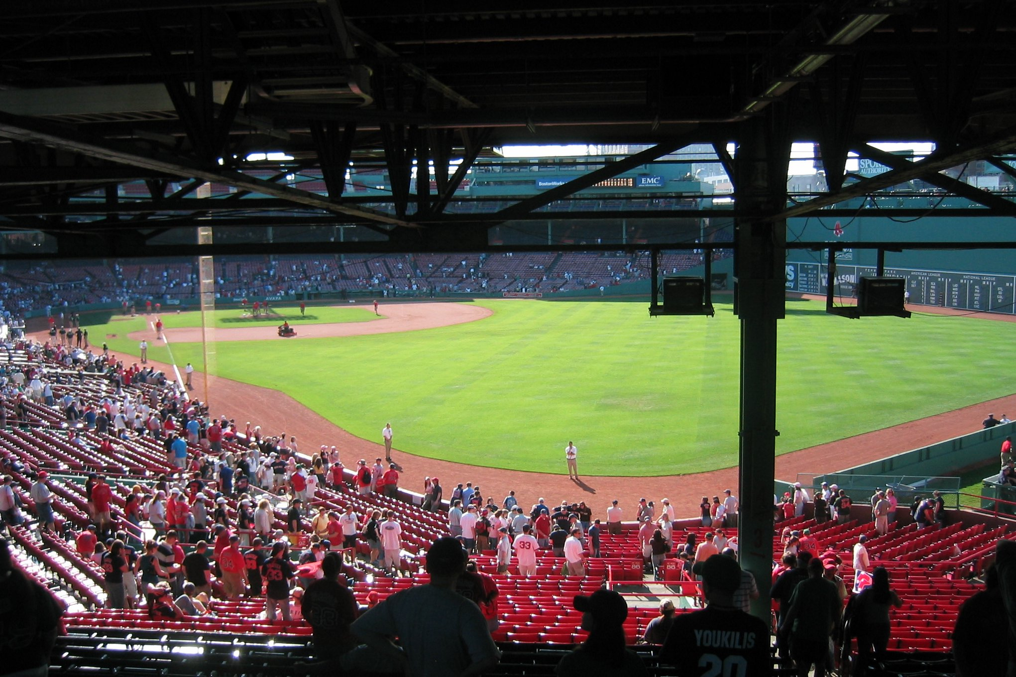 Fenway Park